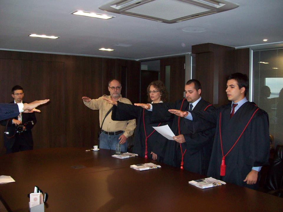 Carreira